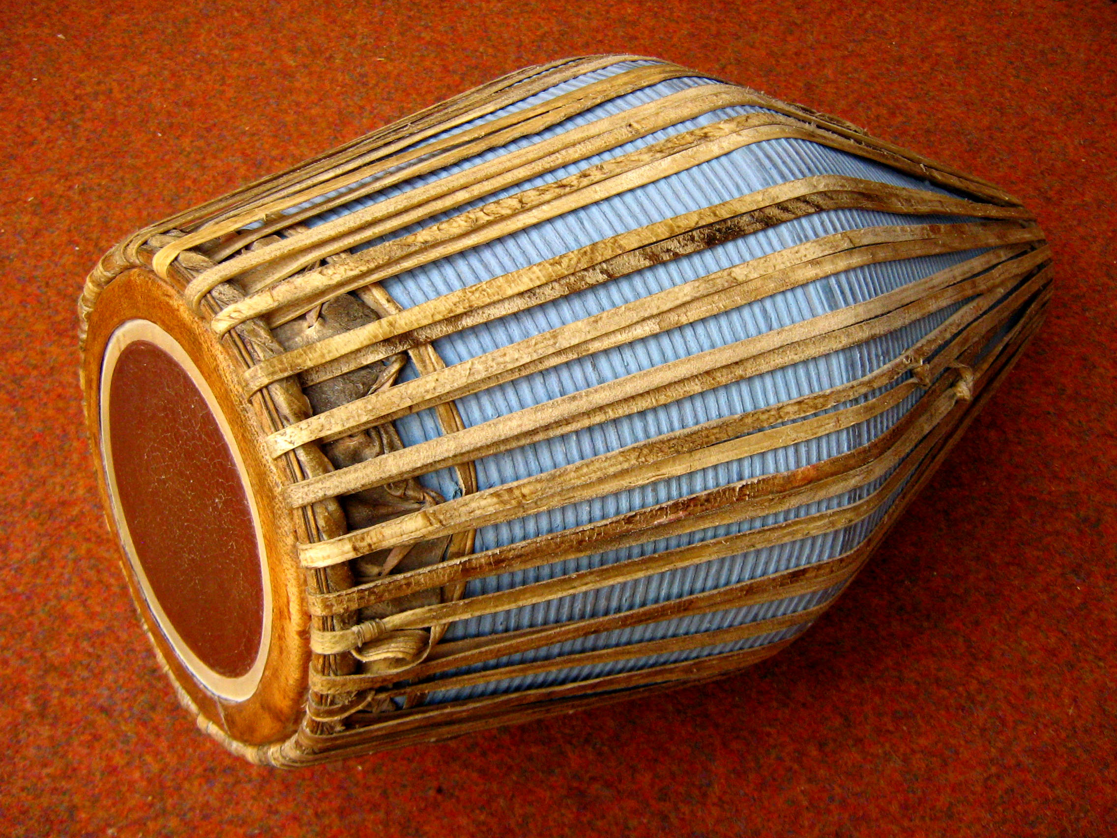 photo of mridanga showing the big head